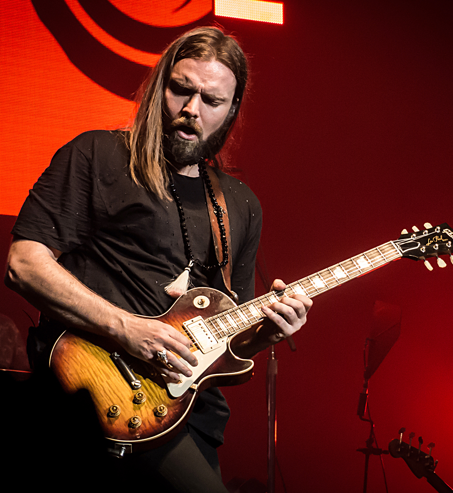 Bush at The Wiltern